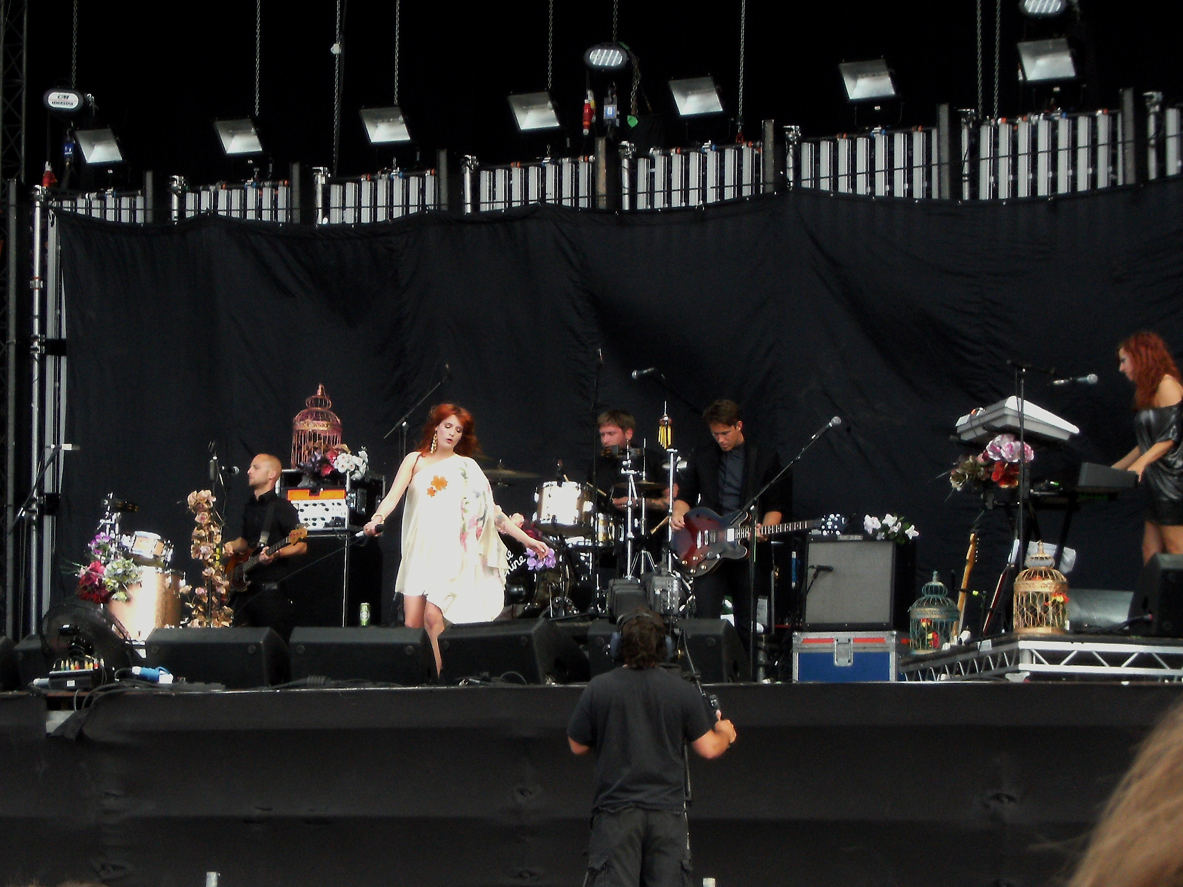 Florence and the Machine at Hyde Park on July 3, 2009.